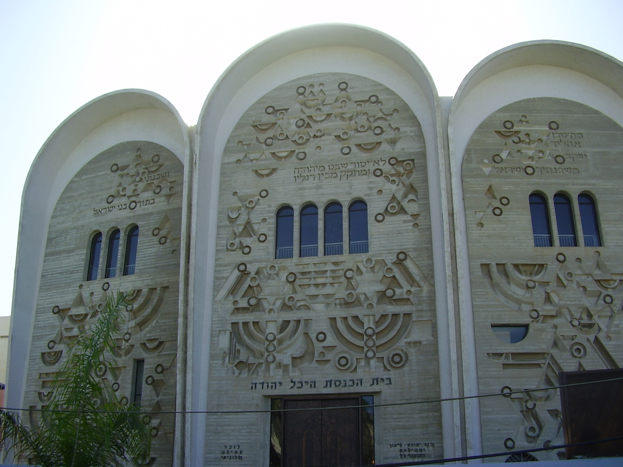 synagoue for the memory of saloniki\'s jews, in tel aviv